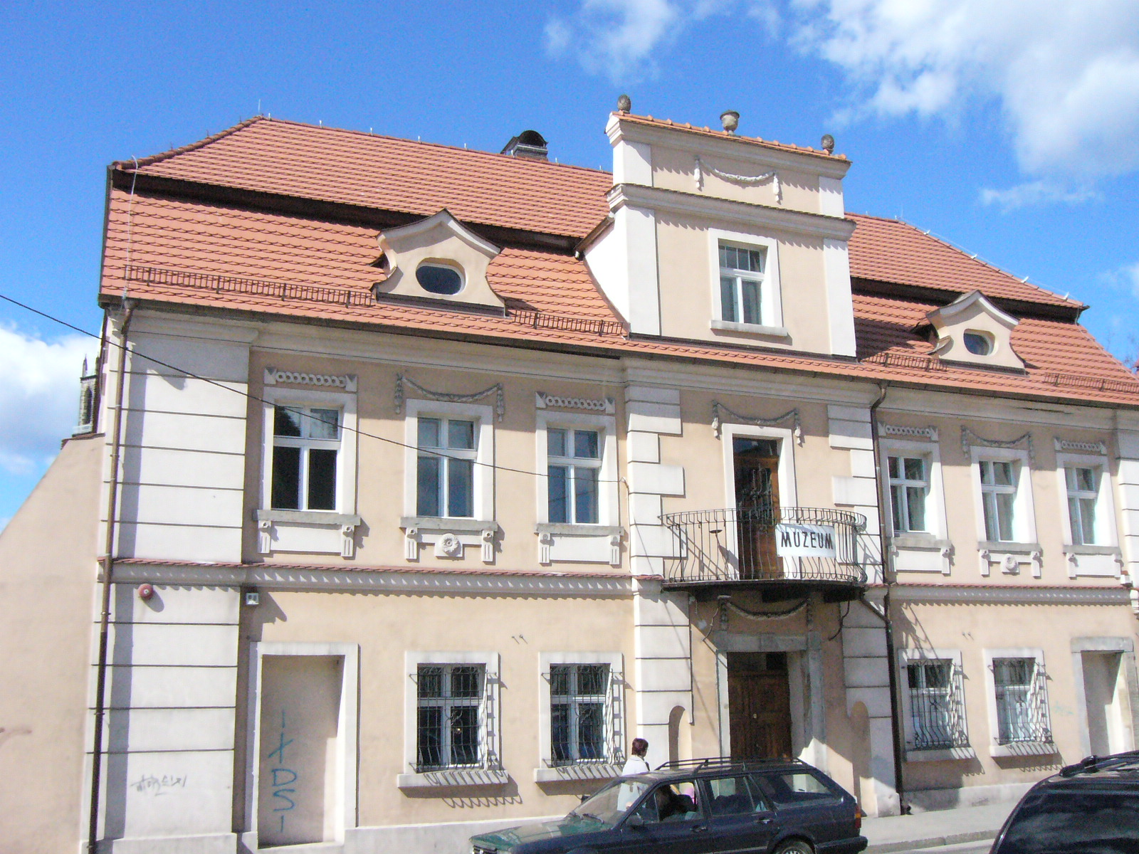 Bolesławiec.home in wich Kutuzov died - now the Unit of Town History of Museum of Ceramik